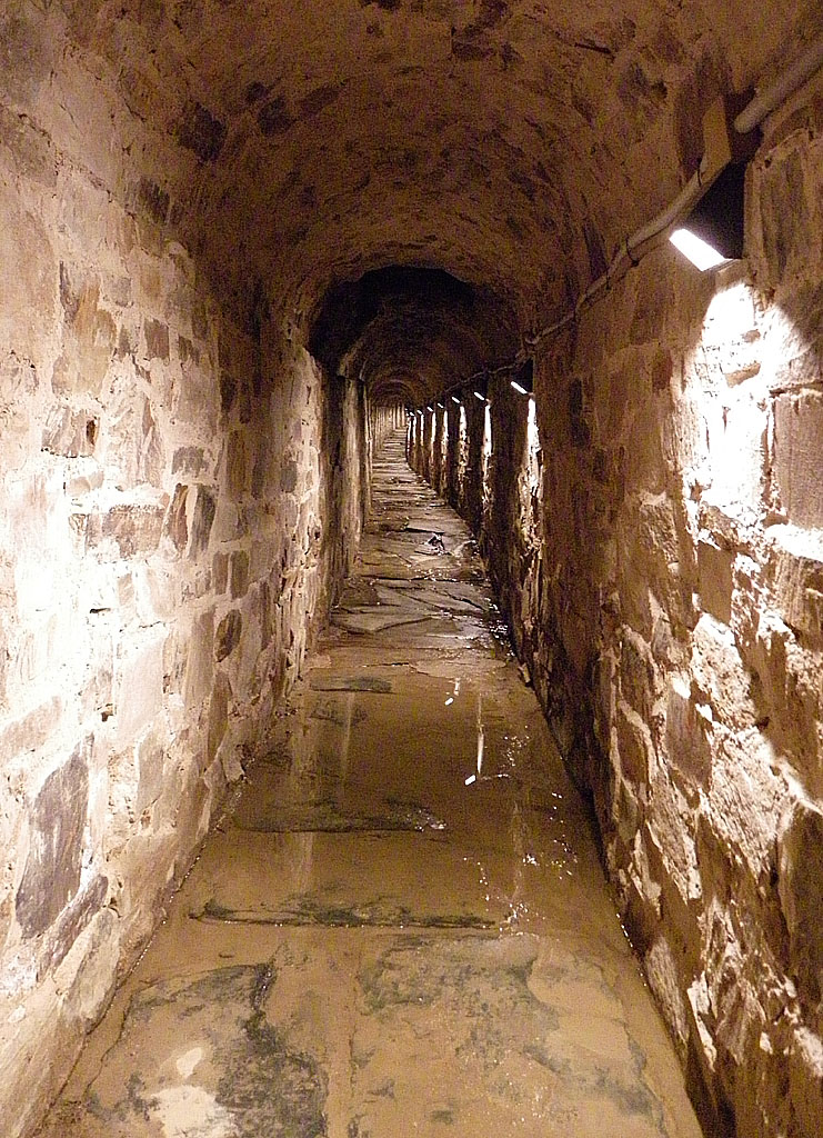 Sewers of Asturica Agusta (Astorga)